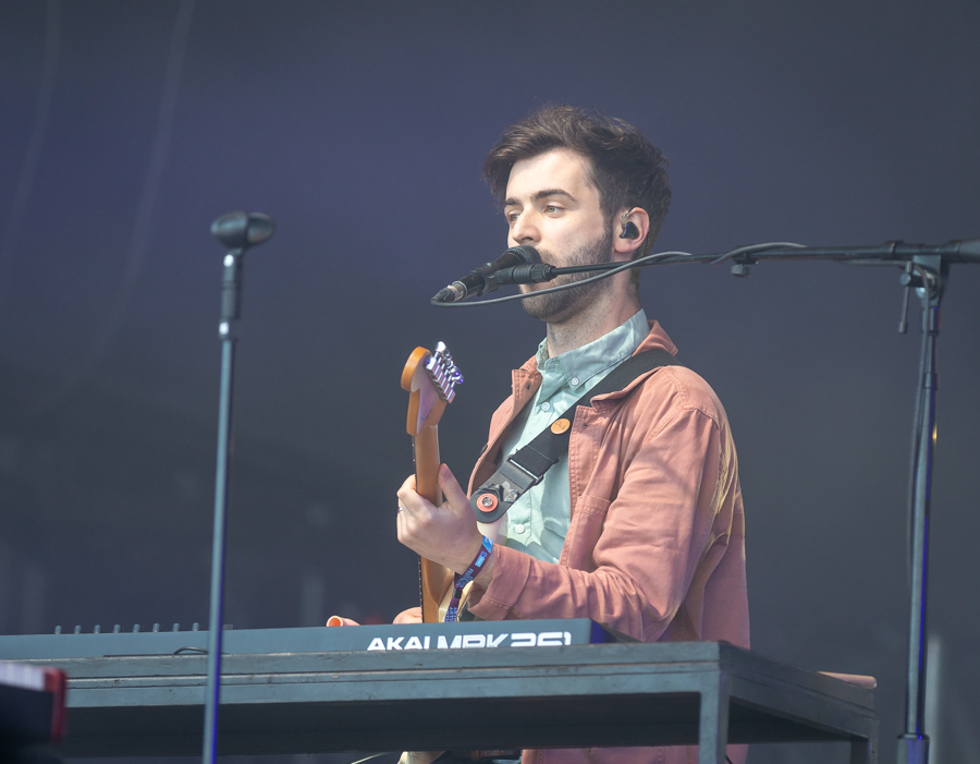 Charlie Barnes in a concert with Bastille at Stavernfestivalen. The concert took place on 11. July 2019 in Stavern. Lineup:Dan Smith (vocal)Kyle Simmons (piano)Will Farquarson (guitar)Chris "Woody" Wood (drums)Charlie Barnes (keyboard and guitar)